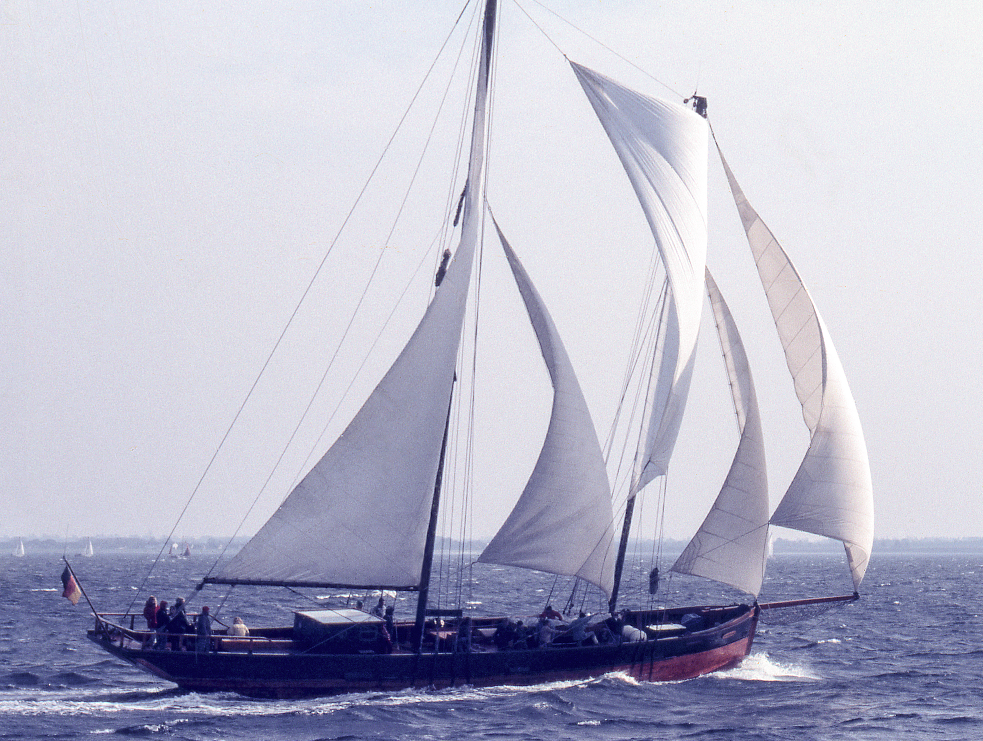 staysail schooner ethel of brixham, firth of kiel 1987